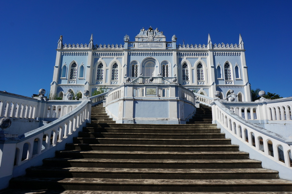 Hospital da Beneficência Portuguesa in Amparo - SP, Brazil